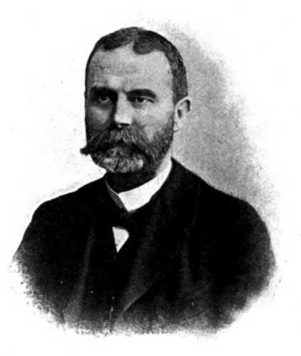 Philipp Biedert (1847-1916), a german paediatrician.